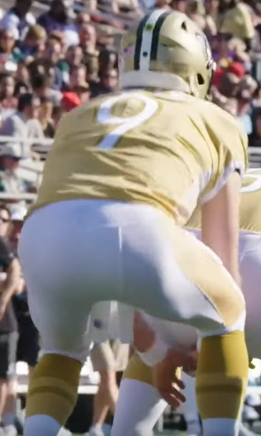 Drew Brees 2020